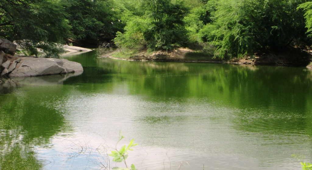 Caicó (RN).